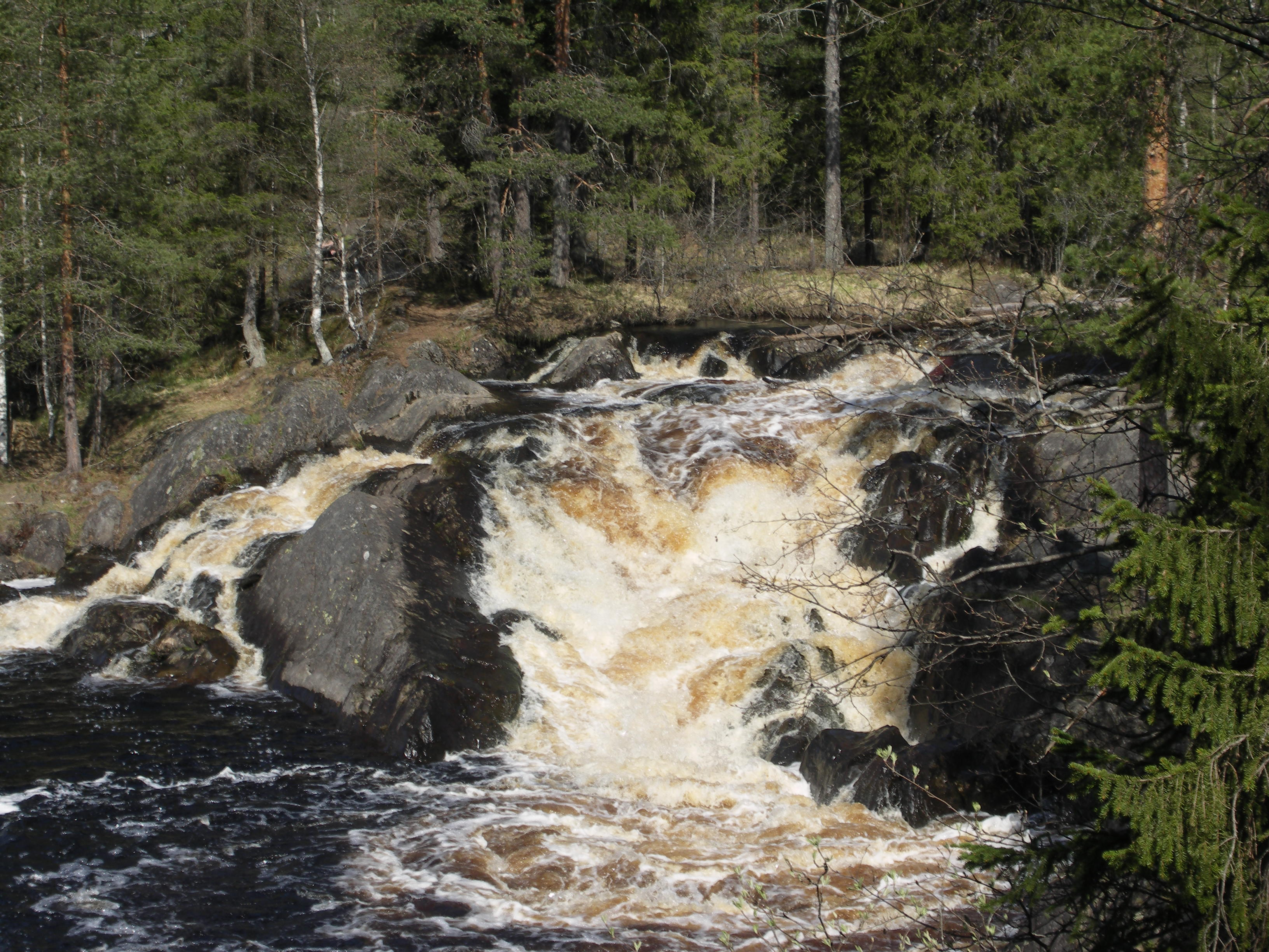 Rapids in River Tohmajoki near Ruskeala, Russia